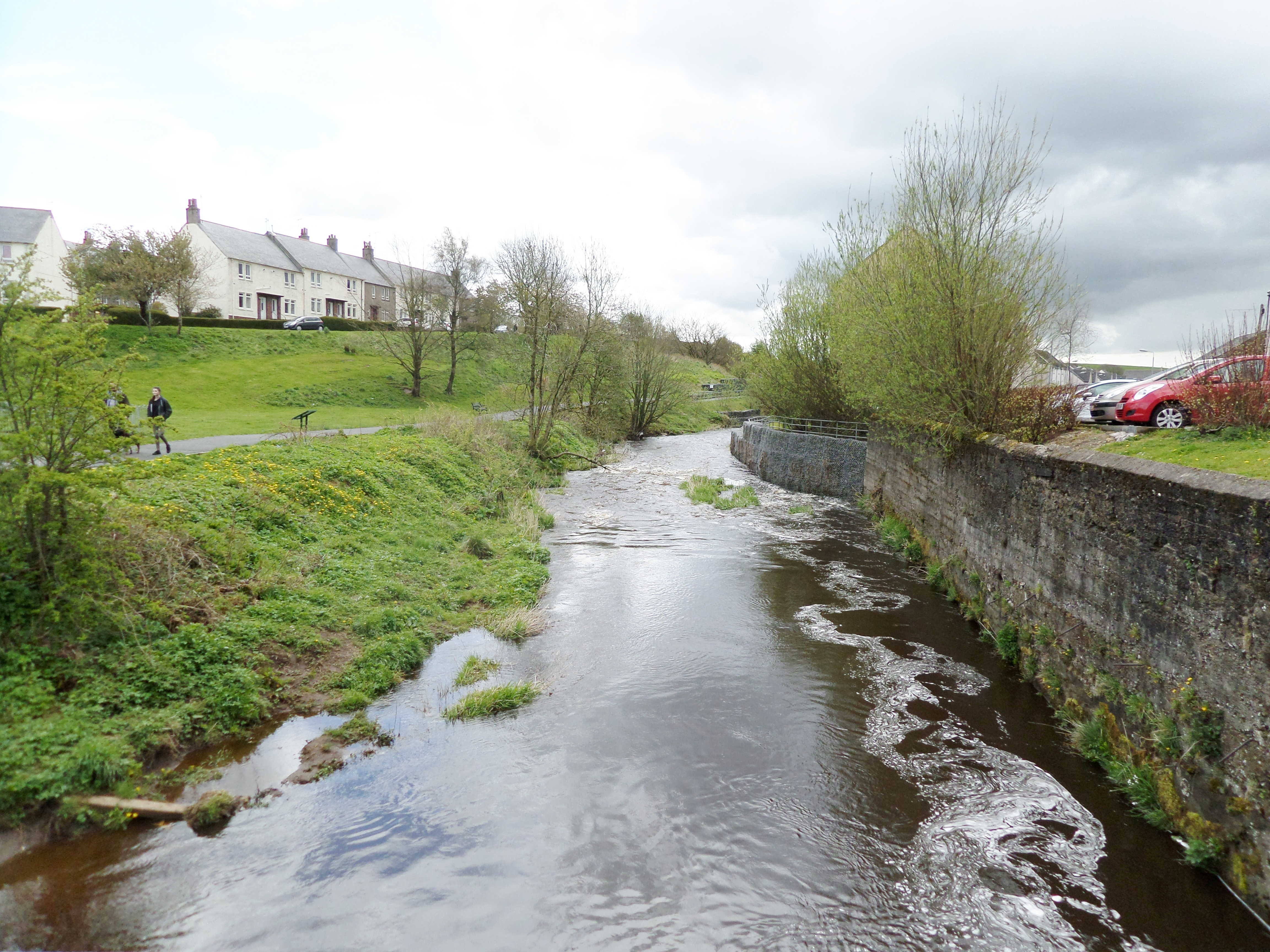 The Annick Water at Bridgend in Stewarton, site in 1586 of the murder of the 4th Earl of Eglinton. East Ayrshire, Scotland.